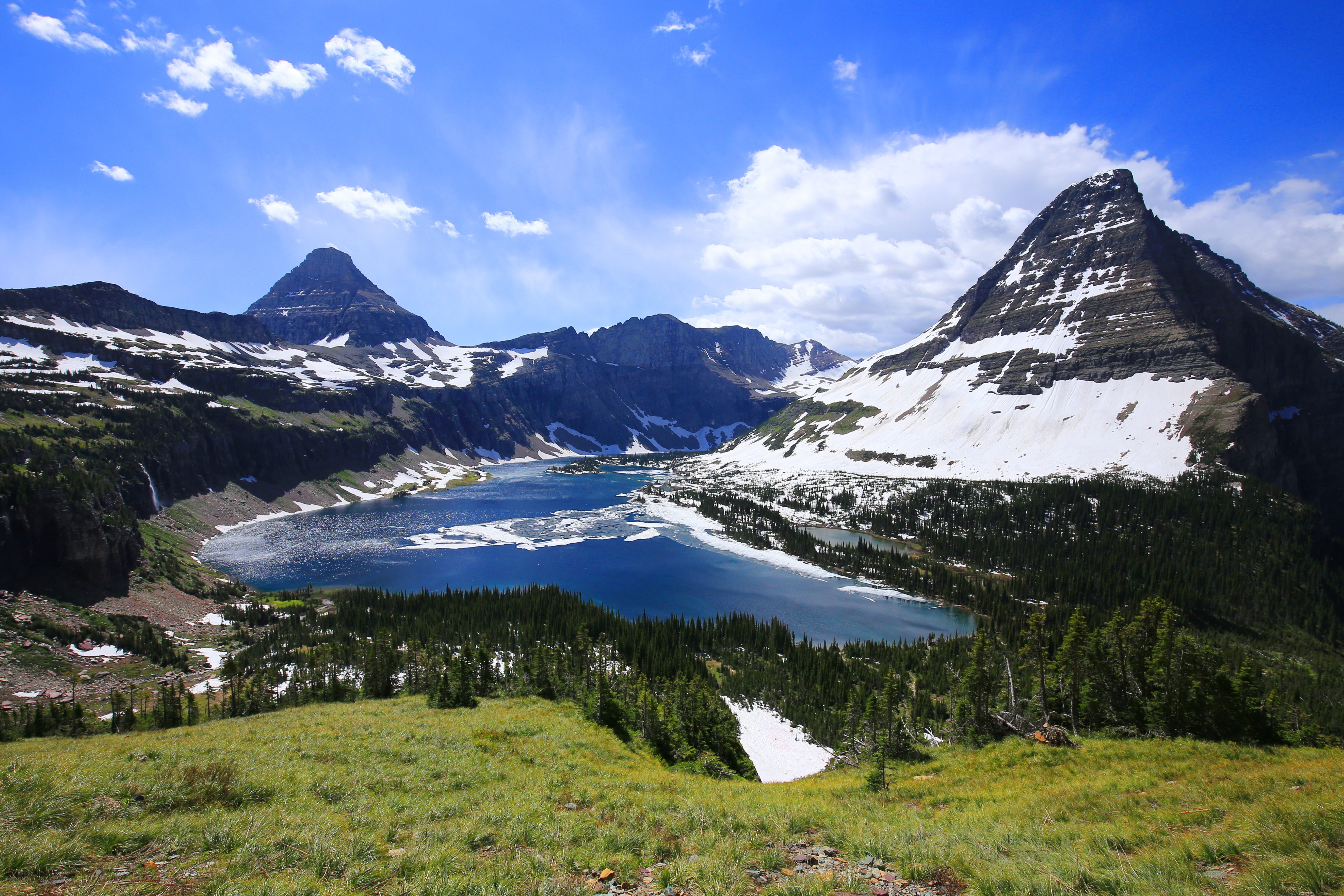 Bearhat Mountain (right), Reynolds Mountain (left) and Hidden Lake in Glacier National Park